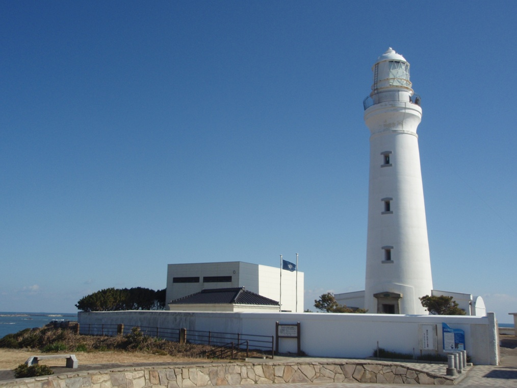 Inubosaki Lighthouse, in Choshi, Chiba, Japan